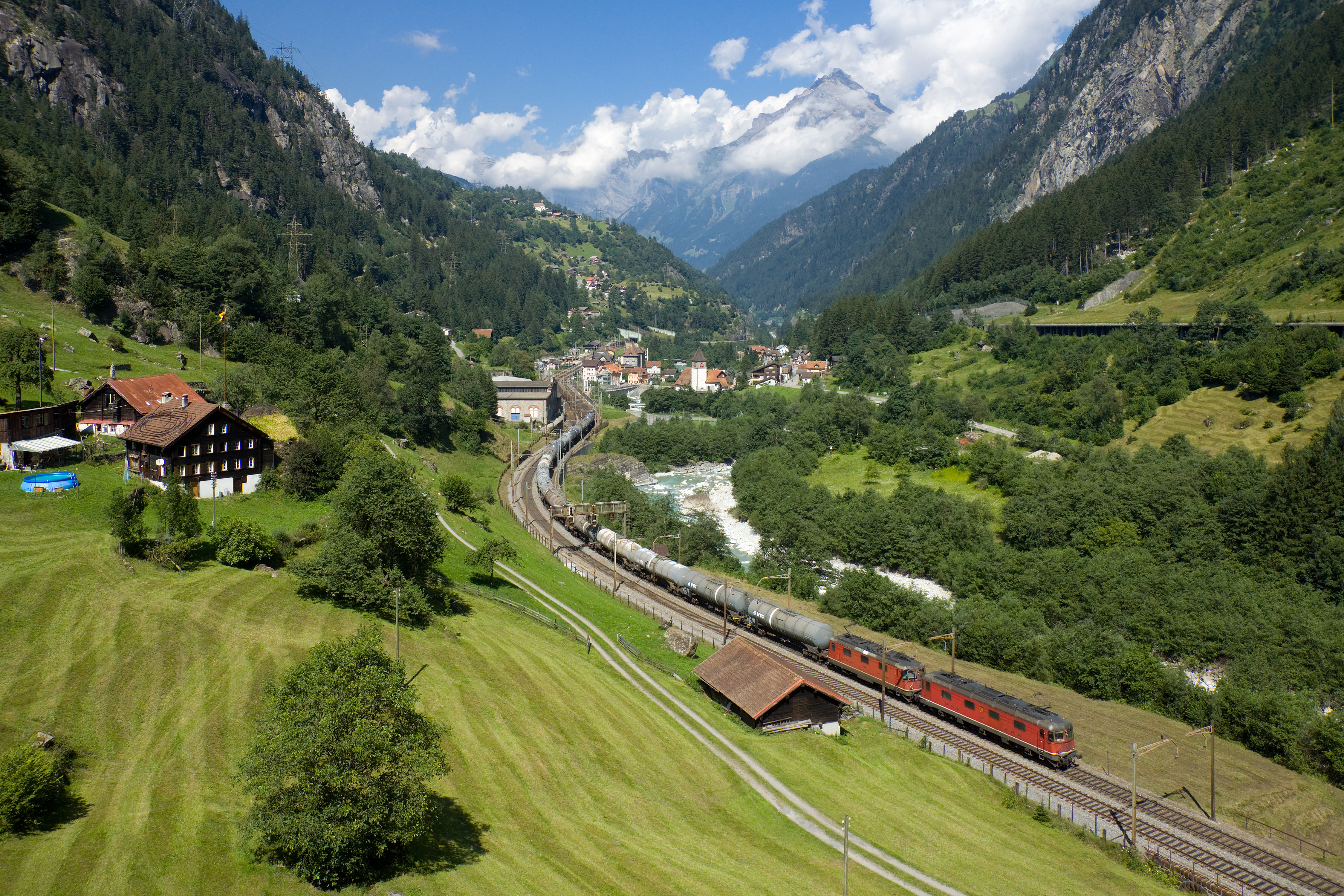 A SBB-CFF-FFS Re 6/6 and Re 4/4 II at the front plus another Re 4/4 II pushing at the rear (barely visible) haul a 1500 ton oil train uphill on the Gotthard line. Picture taken near Gurtnellen, Switzerland.